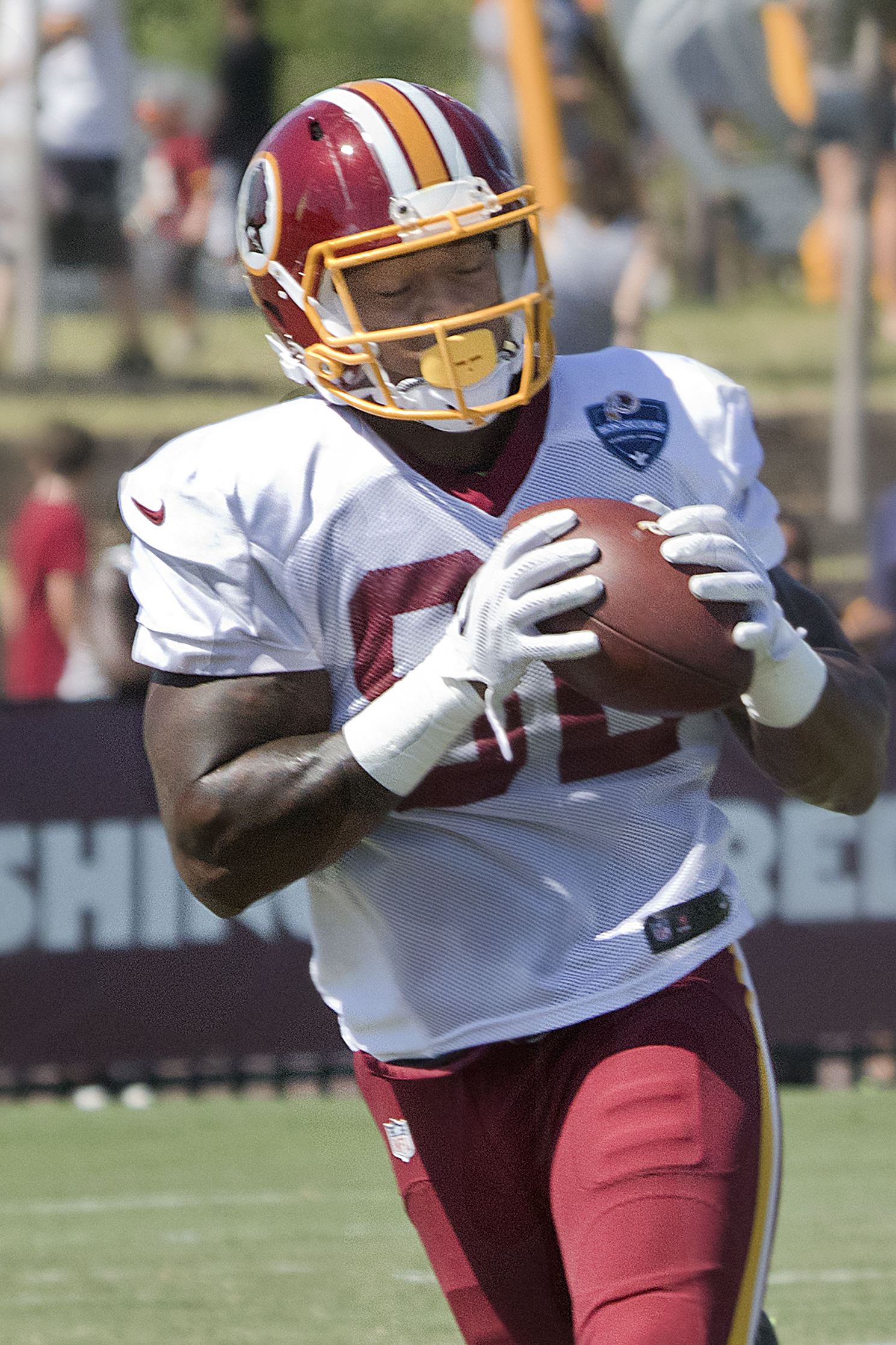 Washington Redskins Richmond Virginia Training Camp - NFL Football